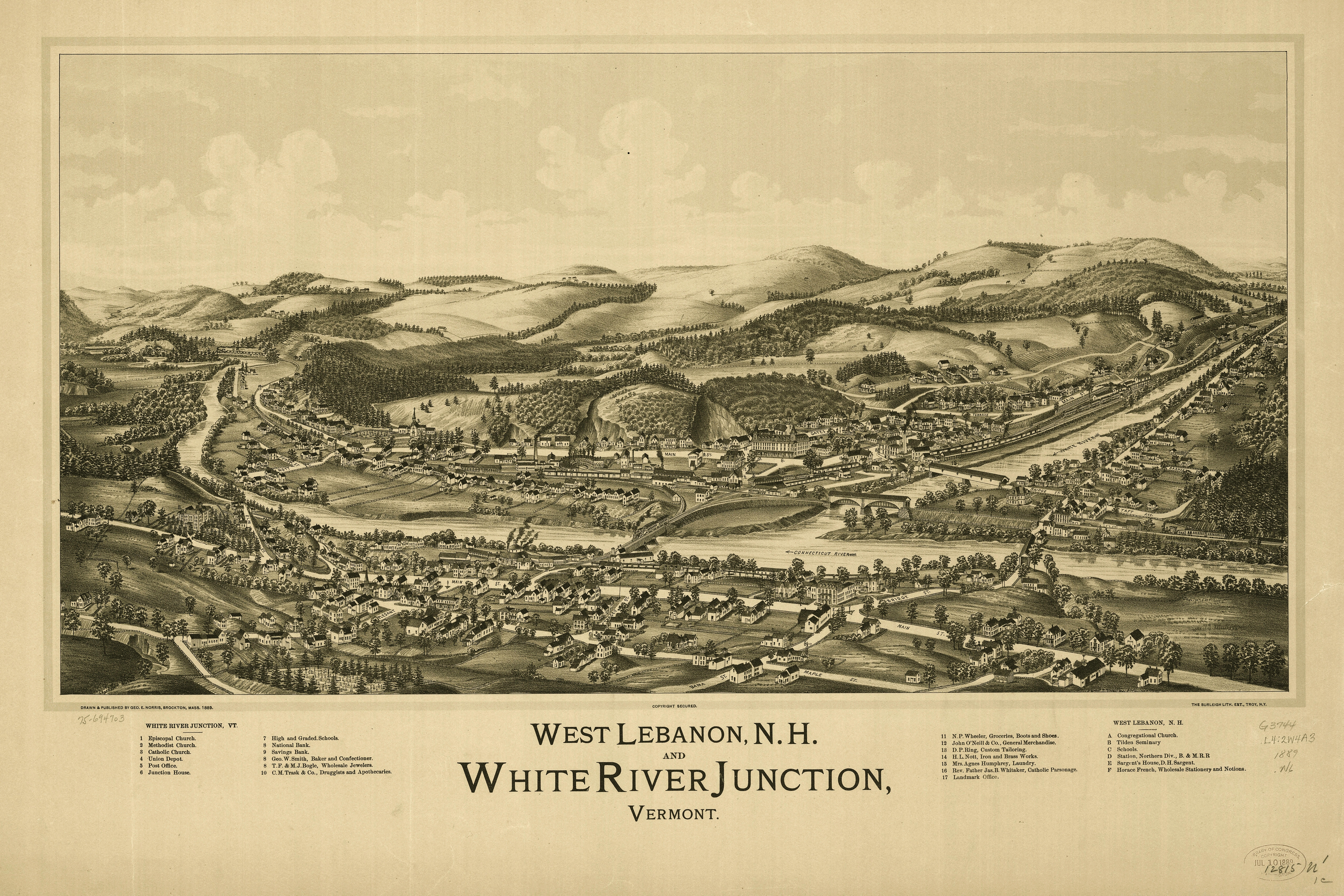 White River Junction, Vermont, and West Lebanon, New Hampshire, USA, as of 1889. Print by Geo. E. Norris, Brockton, Massachusetts. This image was copyright 1889 but now is in the public domain because it was published before 1923 in the United States.